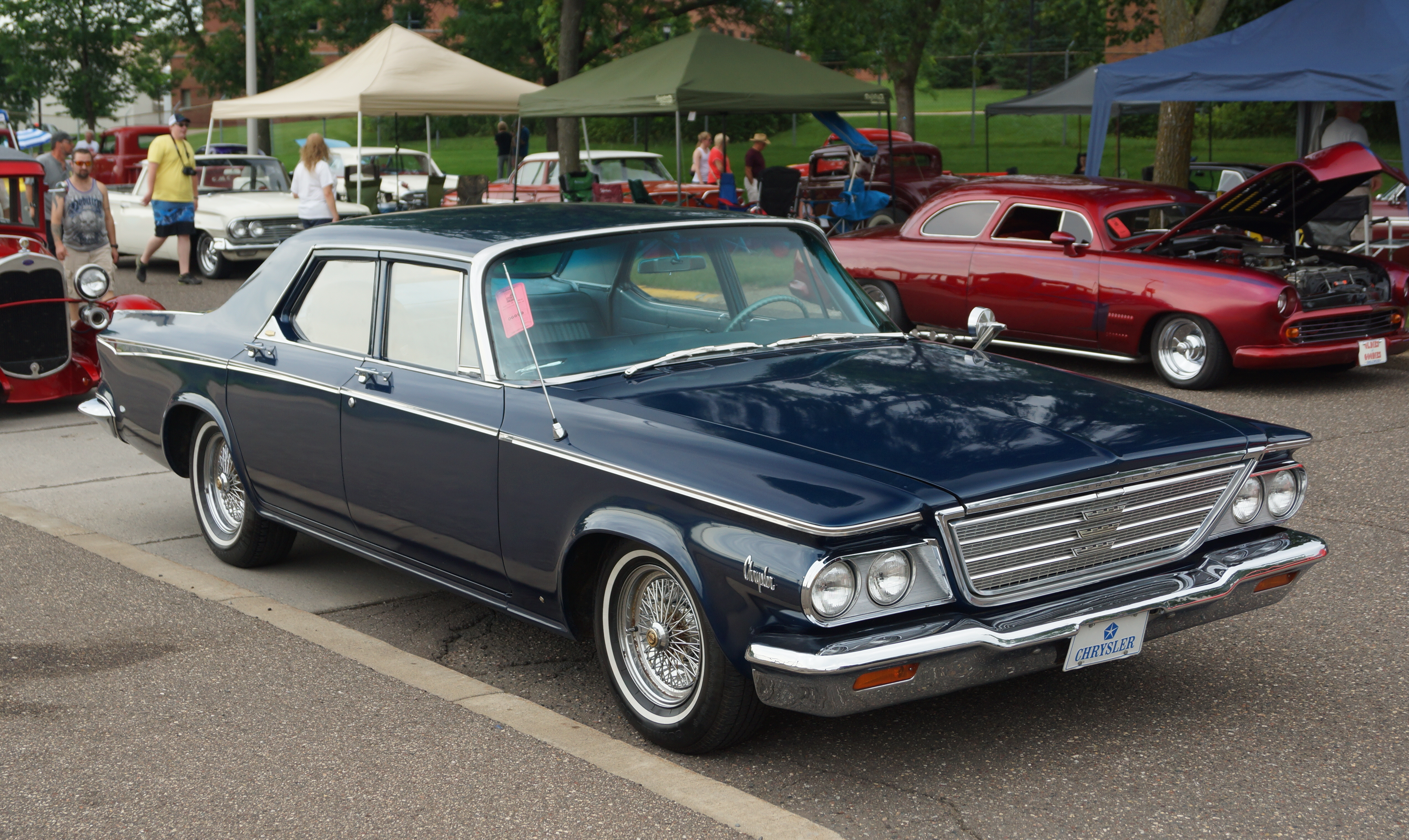 Minnesota Street Rod Association (MSRA) “BACK TO THE 50′s” 43rd Annual Car Show June 17-19, 2016 State Fairgrounds St. Paul Minnesota Click here for more car pictures at my Flickr site. Vote for you favorite Car Show here, until July 18, 2016 Also on Tumblr